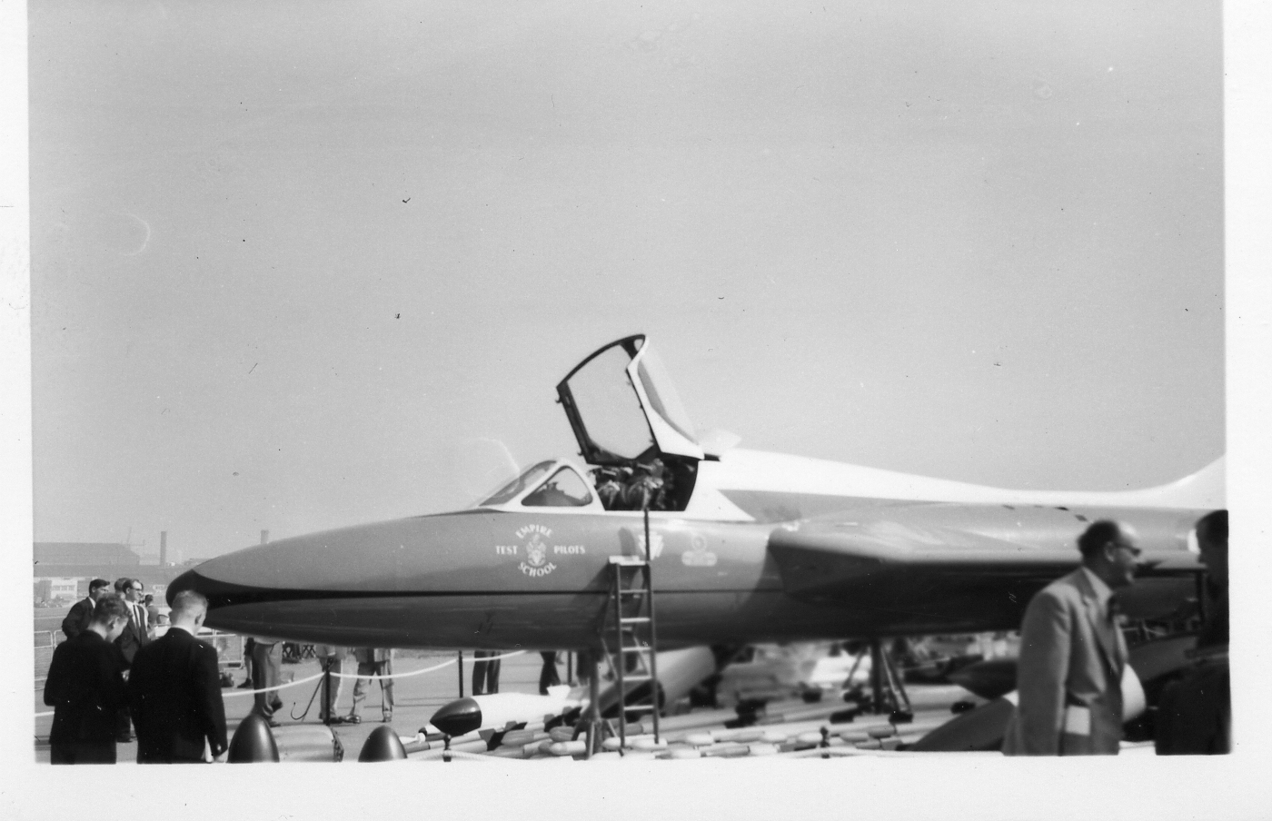 Hawker Hunter T7 of the Empire Test Pilots' School, at the SBAC Show Farnborough 12 September 1959